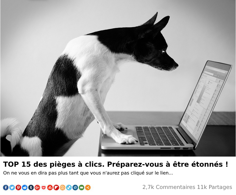 Fictional example of an online ad employing two common clickbait tactics according to Wired Magazine, including the use of numbered lists, and utilizing an information-gap to encourage reader curiosity